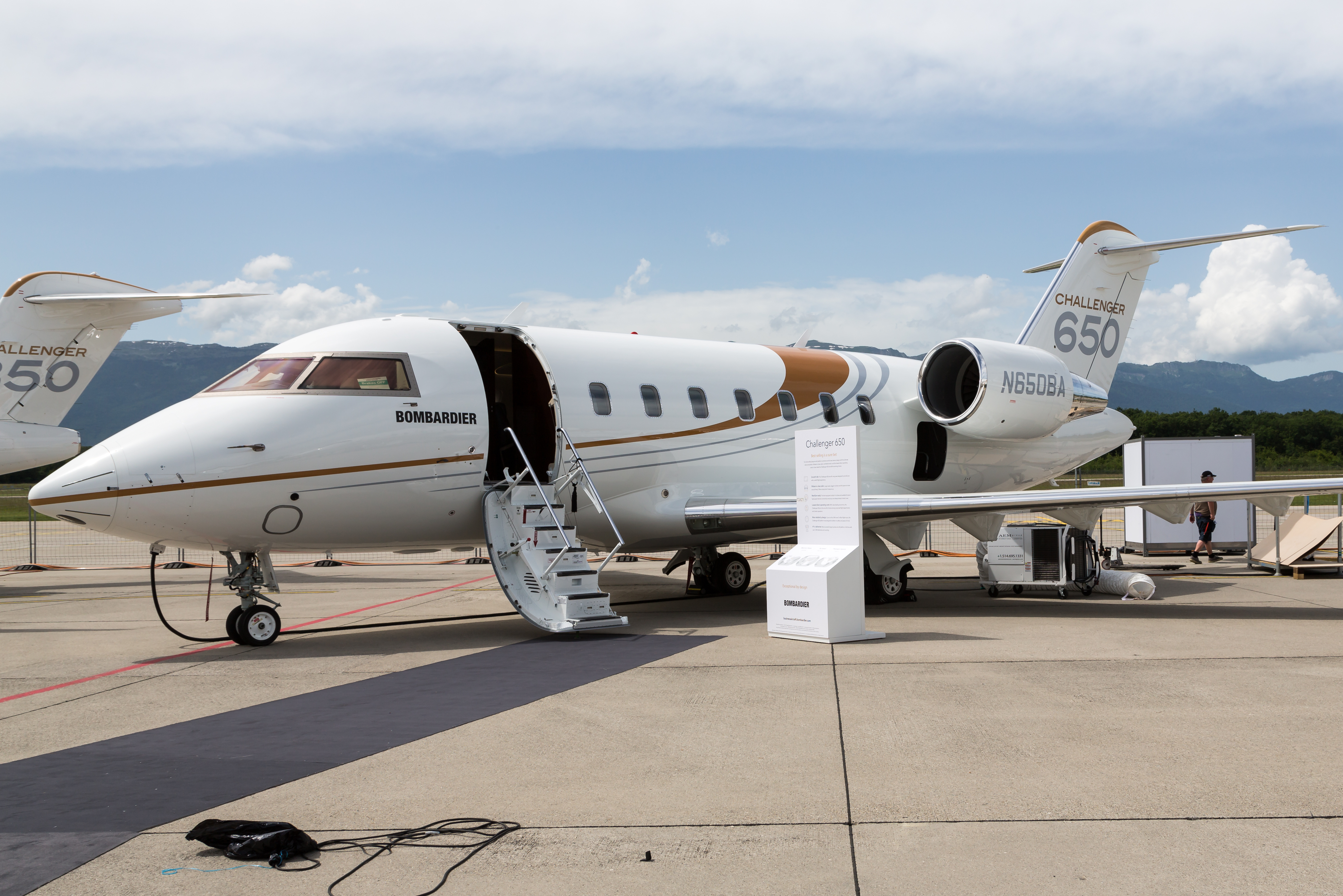 Bombardier Challenger 650, EBACE 2018